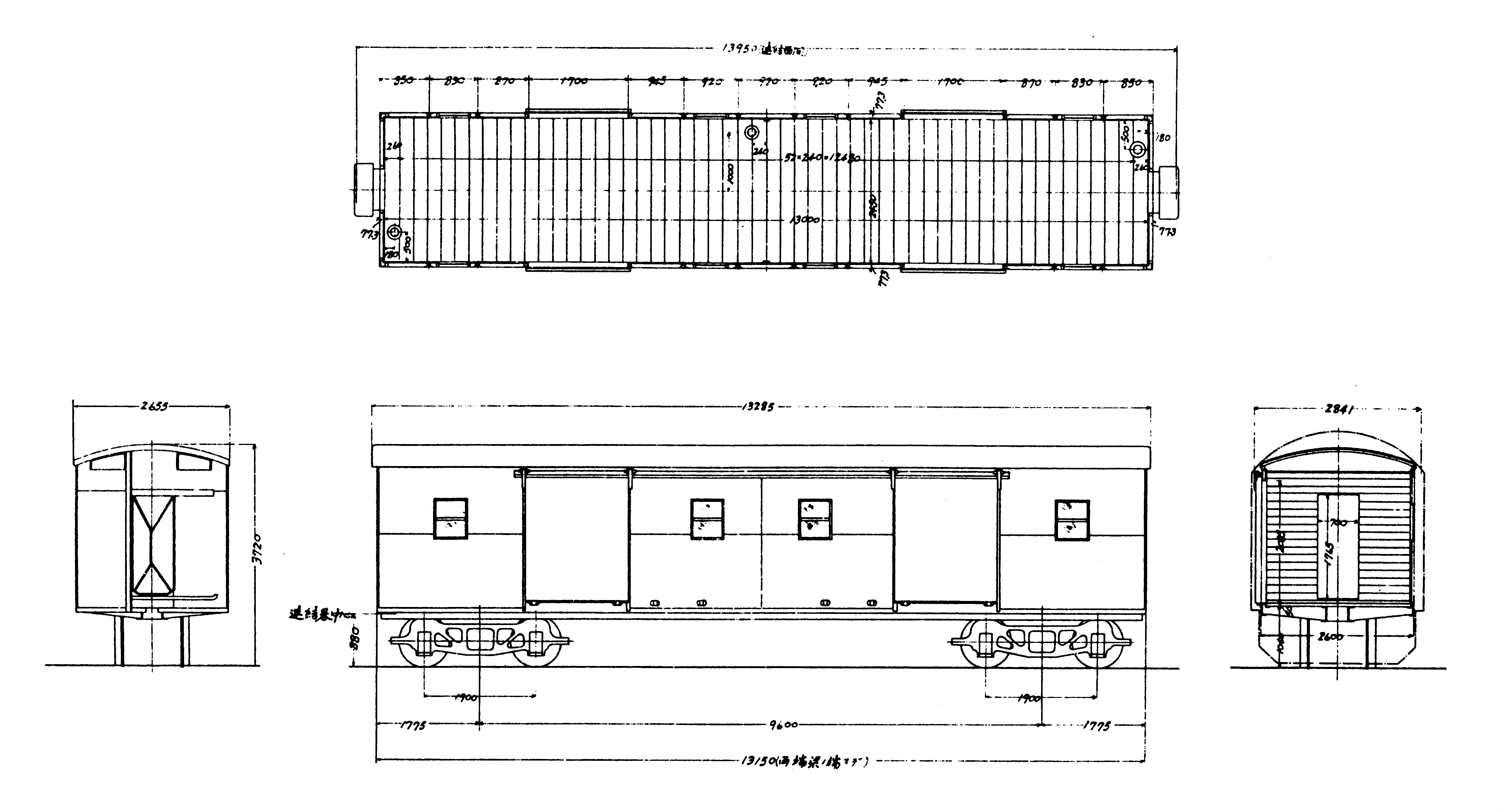 Type drawing of JNR's Class Waki1 freight car (type2)